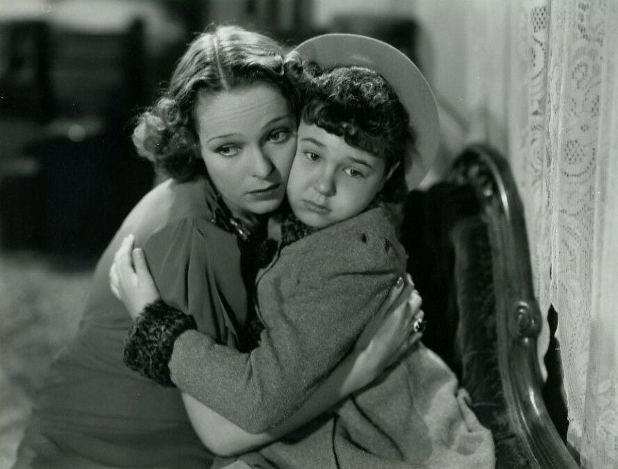 Publicity photo of Sally Blane and Jane Withers in Angel's Holiday (1937)